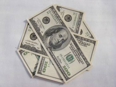 Free Photos – 100 USD More Photos and Full Size Up to 3072 x 2304 pixels Information Regarding Copyright